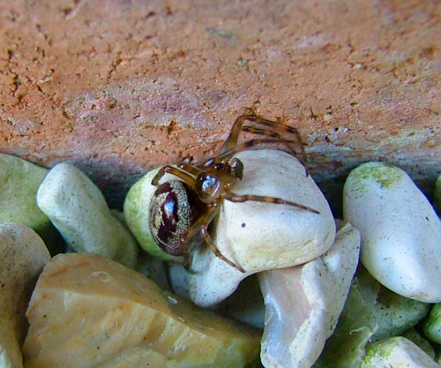 Male Steatoda nobilis - Hampshire